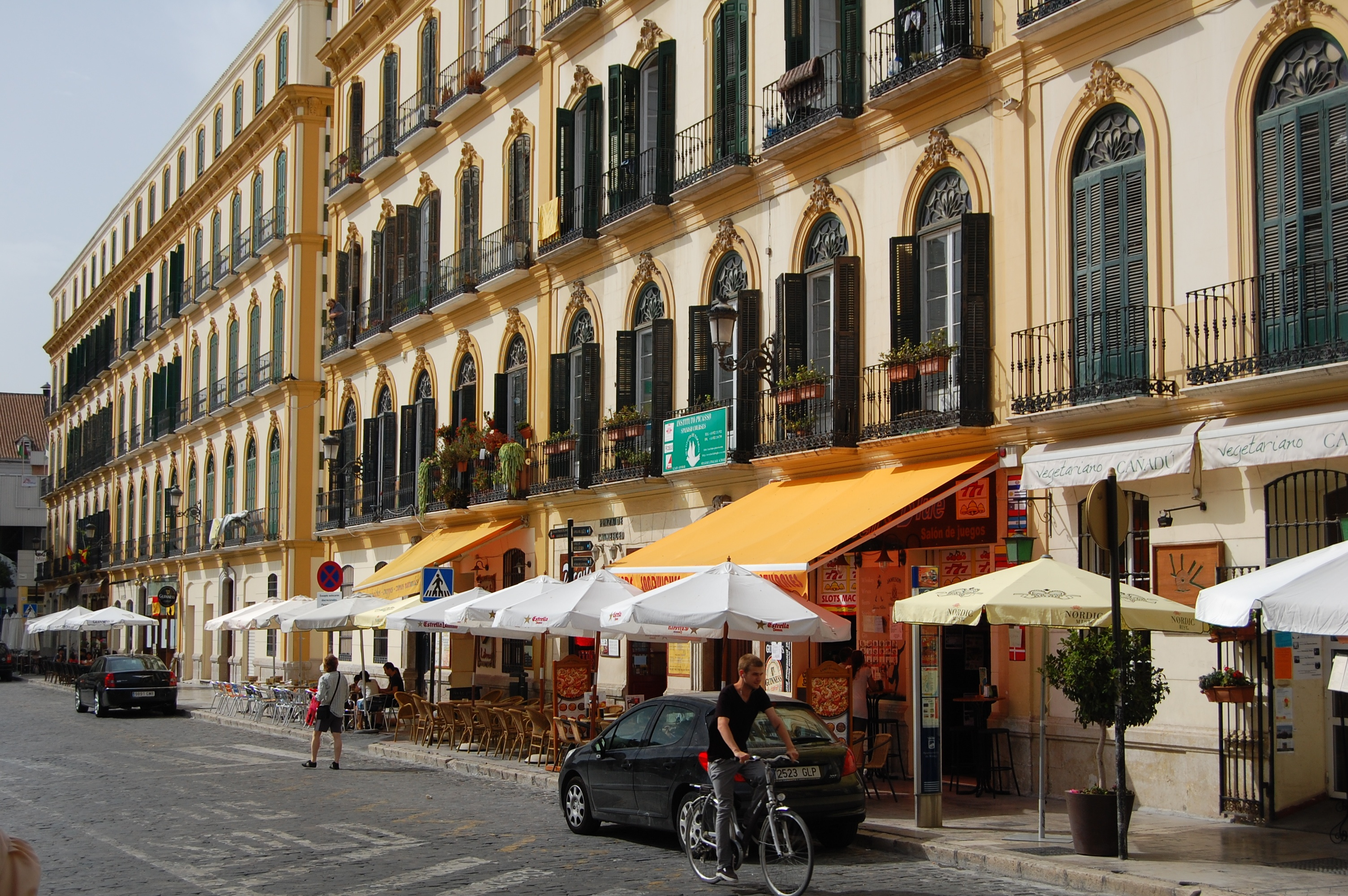 this is where pablo picasso was born - in malaga, spain